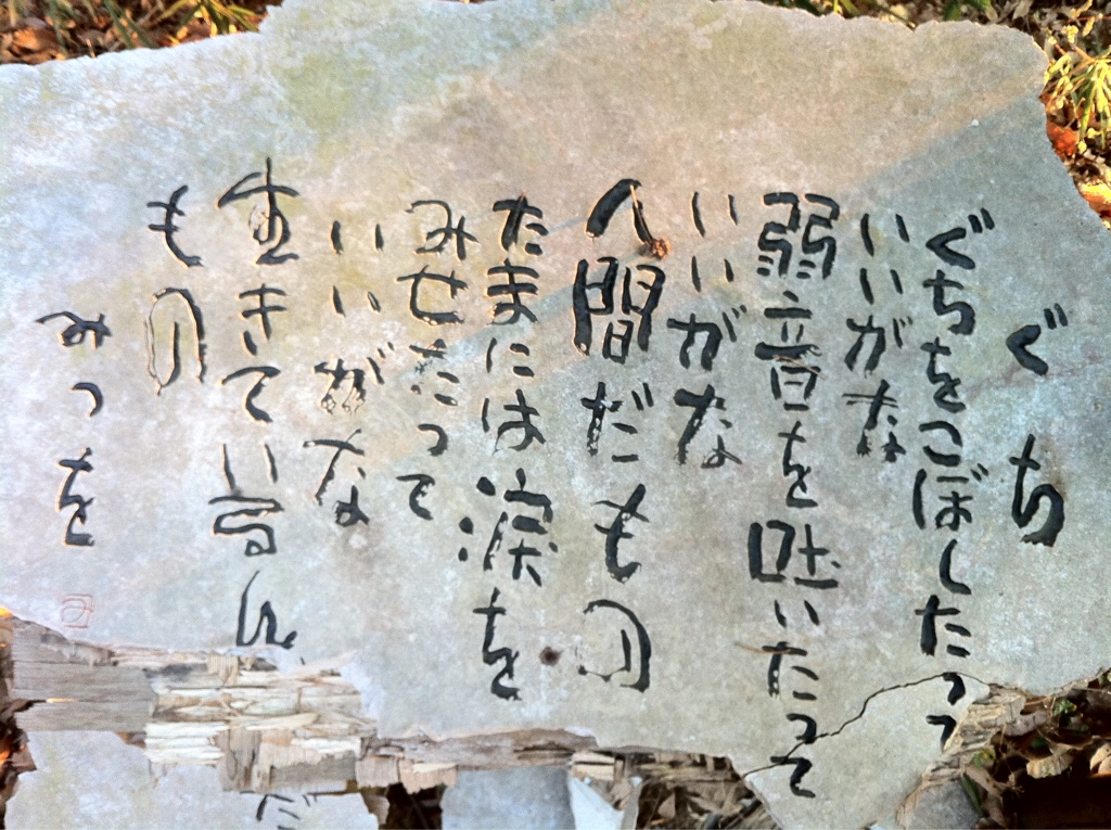 Poem of Mistuo Aida inscribed.